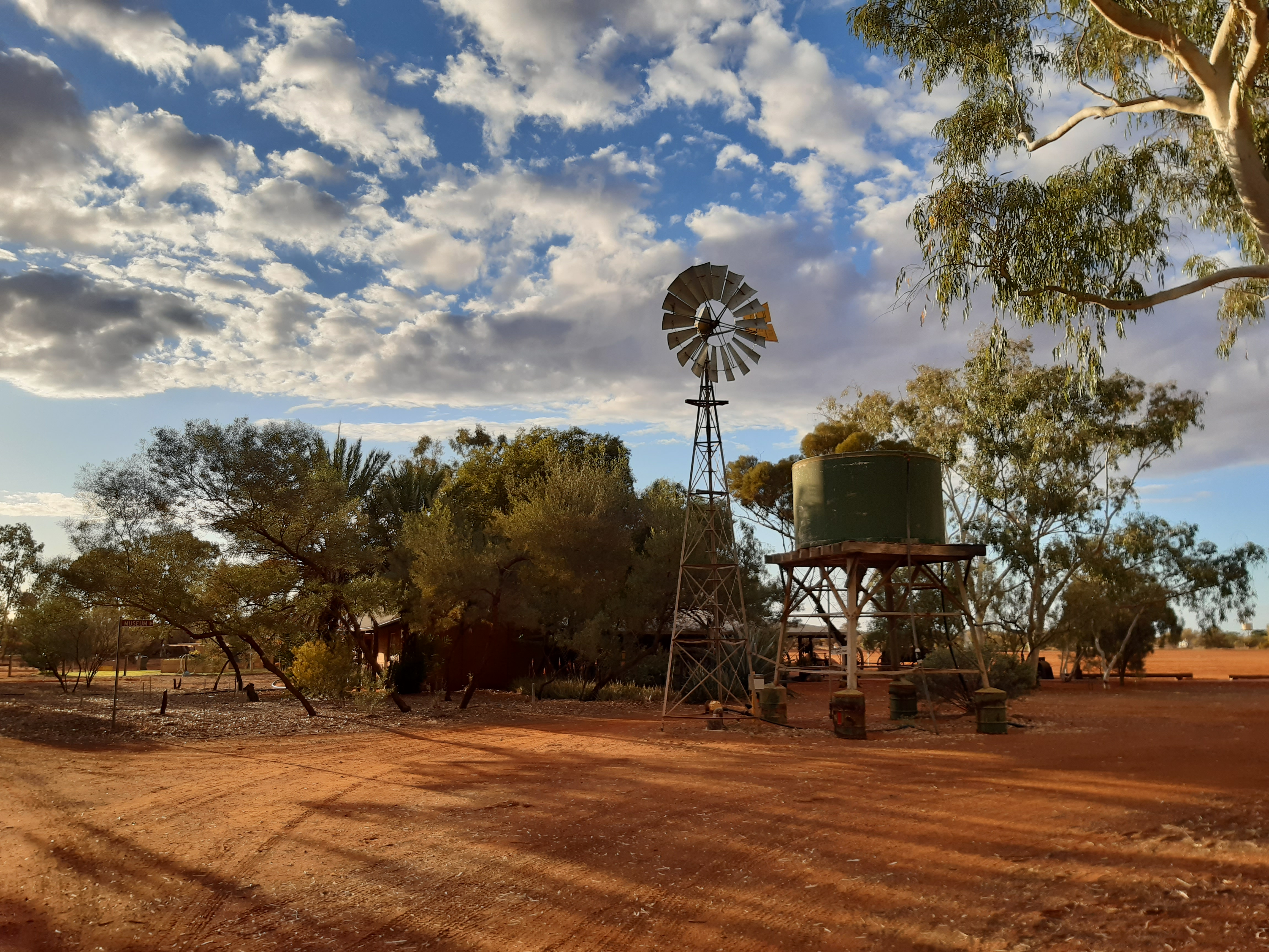 The Murchison Museum, Murchison Settlement, Western Australia.